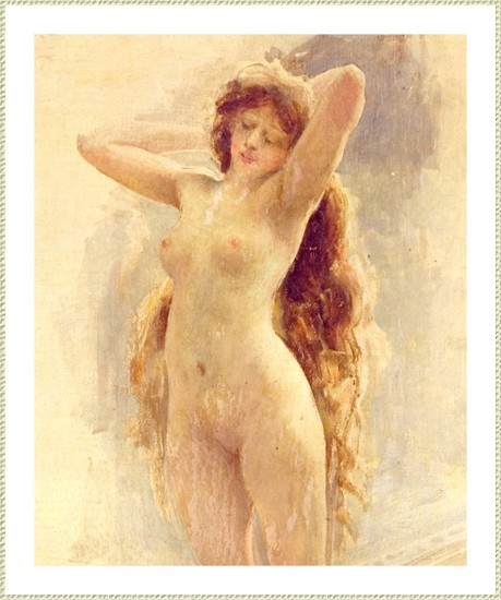 Réveil